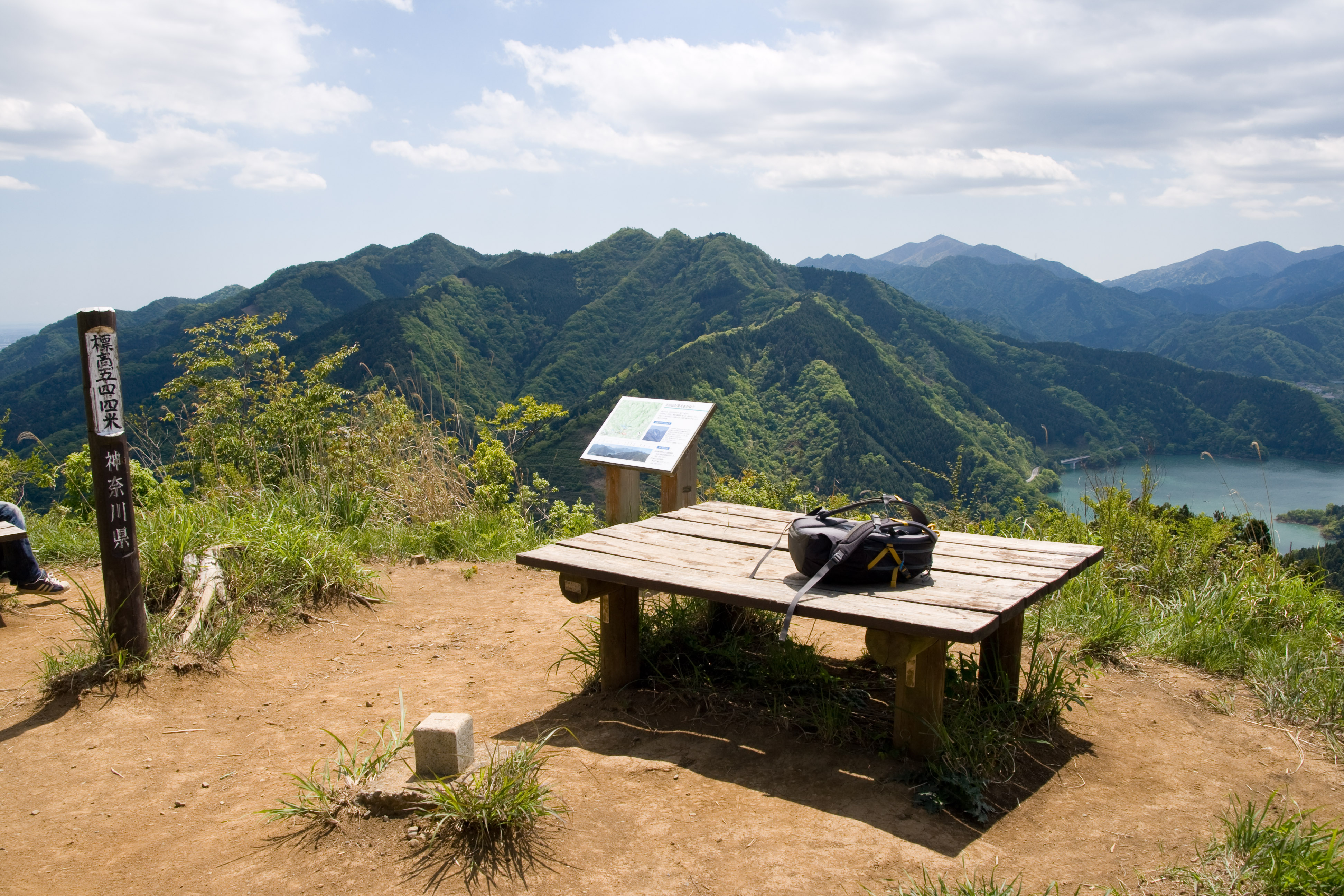 The summit of Mt.Minami, Tanzawa Mountains, Sagamihara City, Kanagawa Pref., Japan.